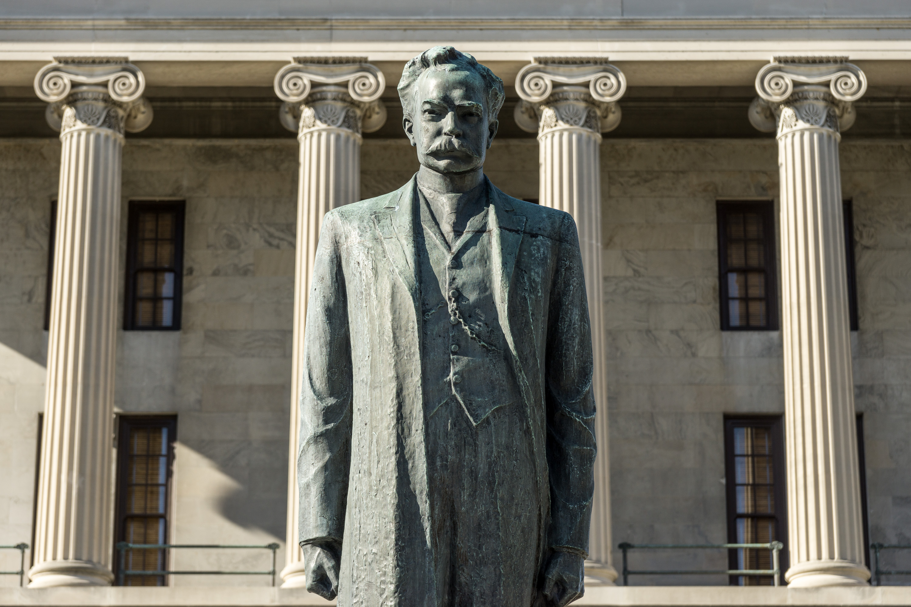 A statue of Edward Ward Carmack by Nancy Cox-McCormack. Tennessee State Capitol, Nashville, TN.